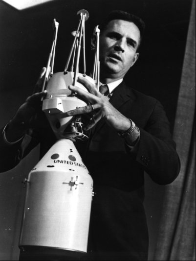 Joe Shea uses models to demonstrate how the lunar module would dock with the command module.